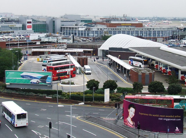 Heathrow Central Bus Station Viewed from the top of Terminal 3 short stay car park.